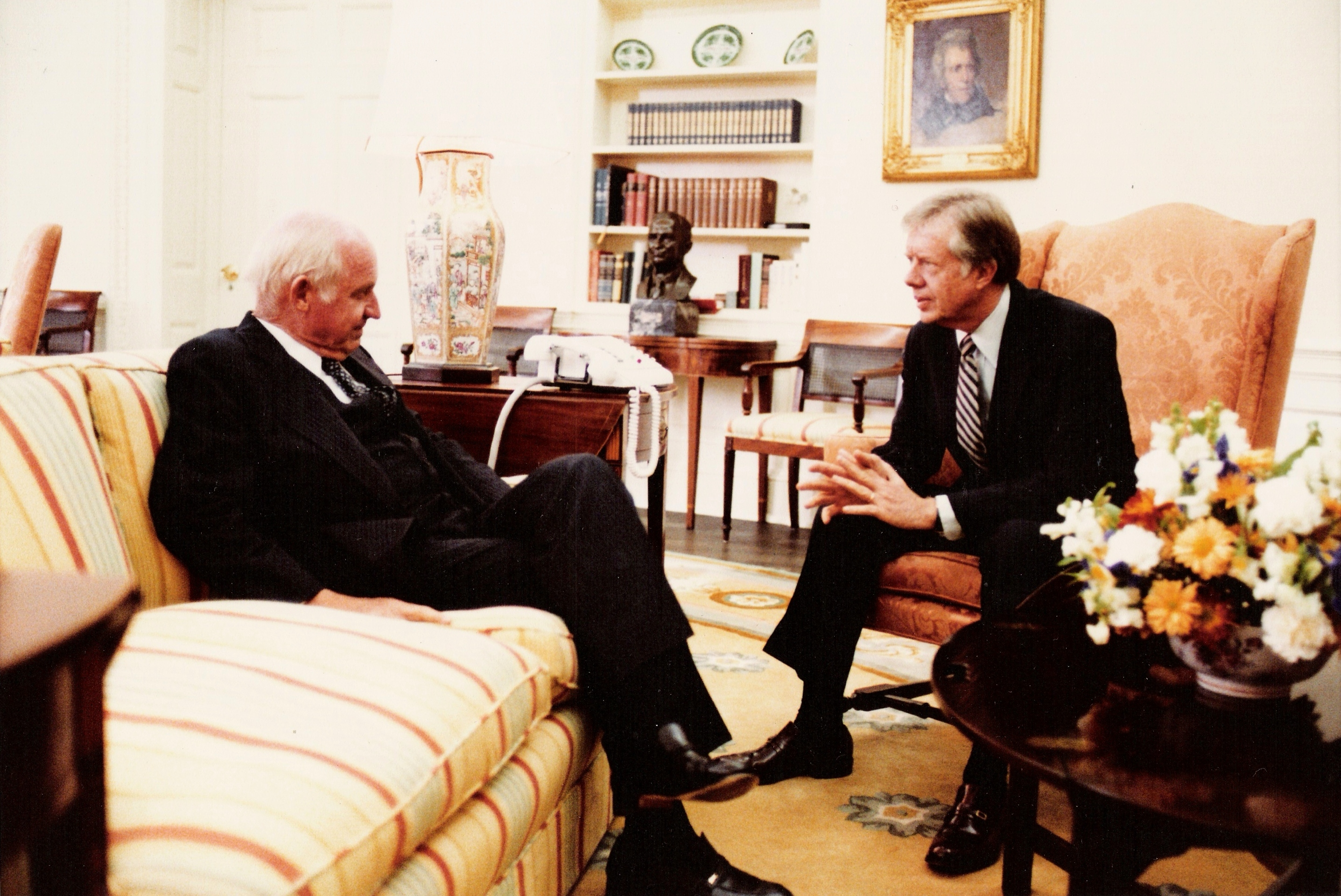 Ambassador John C. West meeting with President Carter